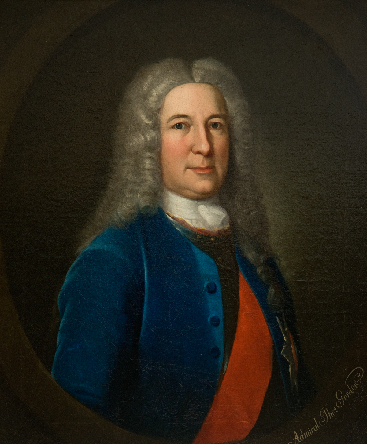 Admiral Thomas Gordon (1658-1741) by British (Scottish) School. Oil on canvas, 76.5 x 63.5 cm. Collection: The National Trust for Scotland